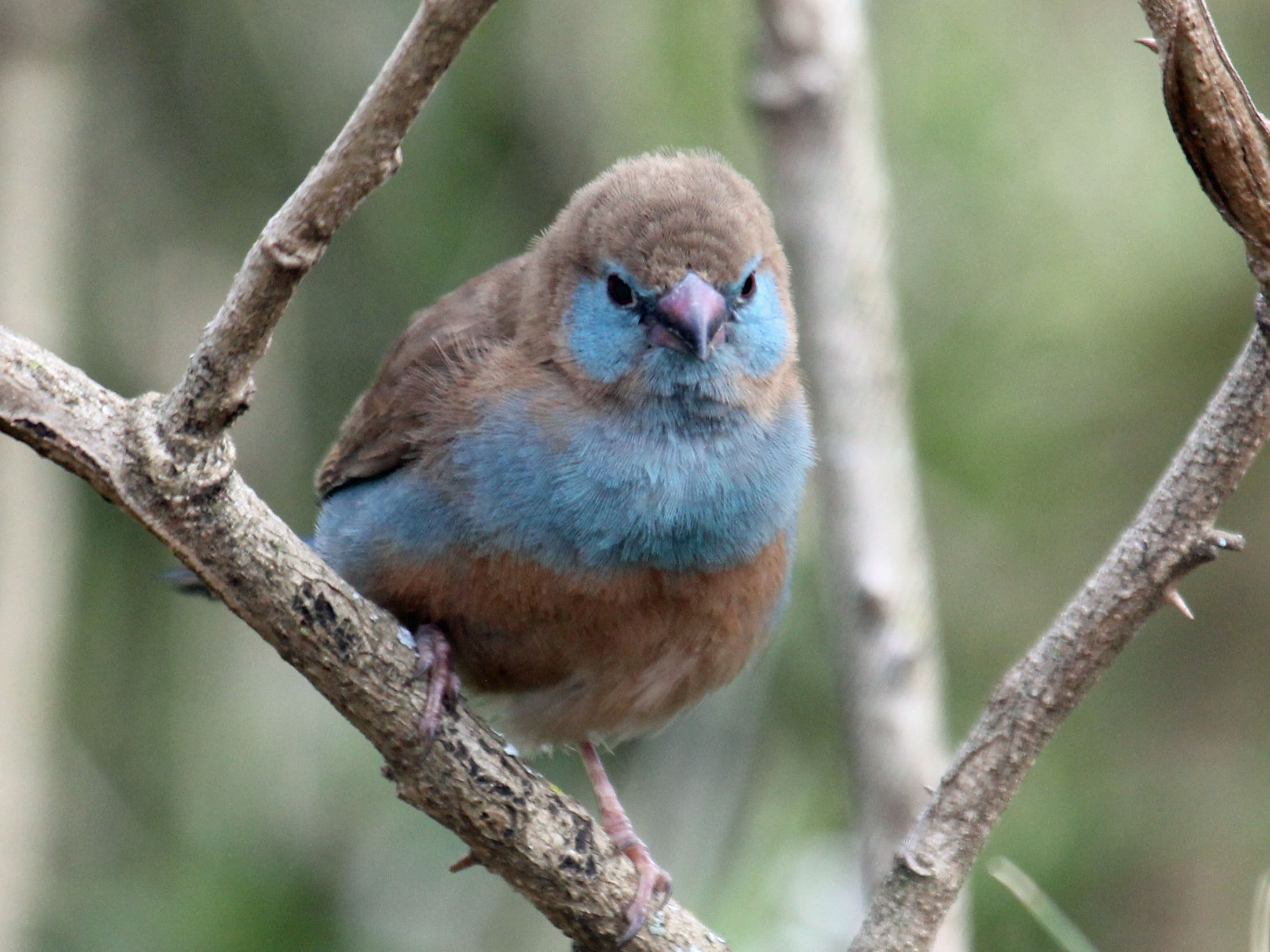 Female Red-cheeked Cordonbleau (Uraeginthus bengalus) - near Gilgil, Kenya at the Kigio Wildlife Conservancy.